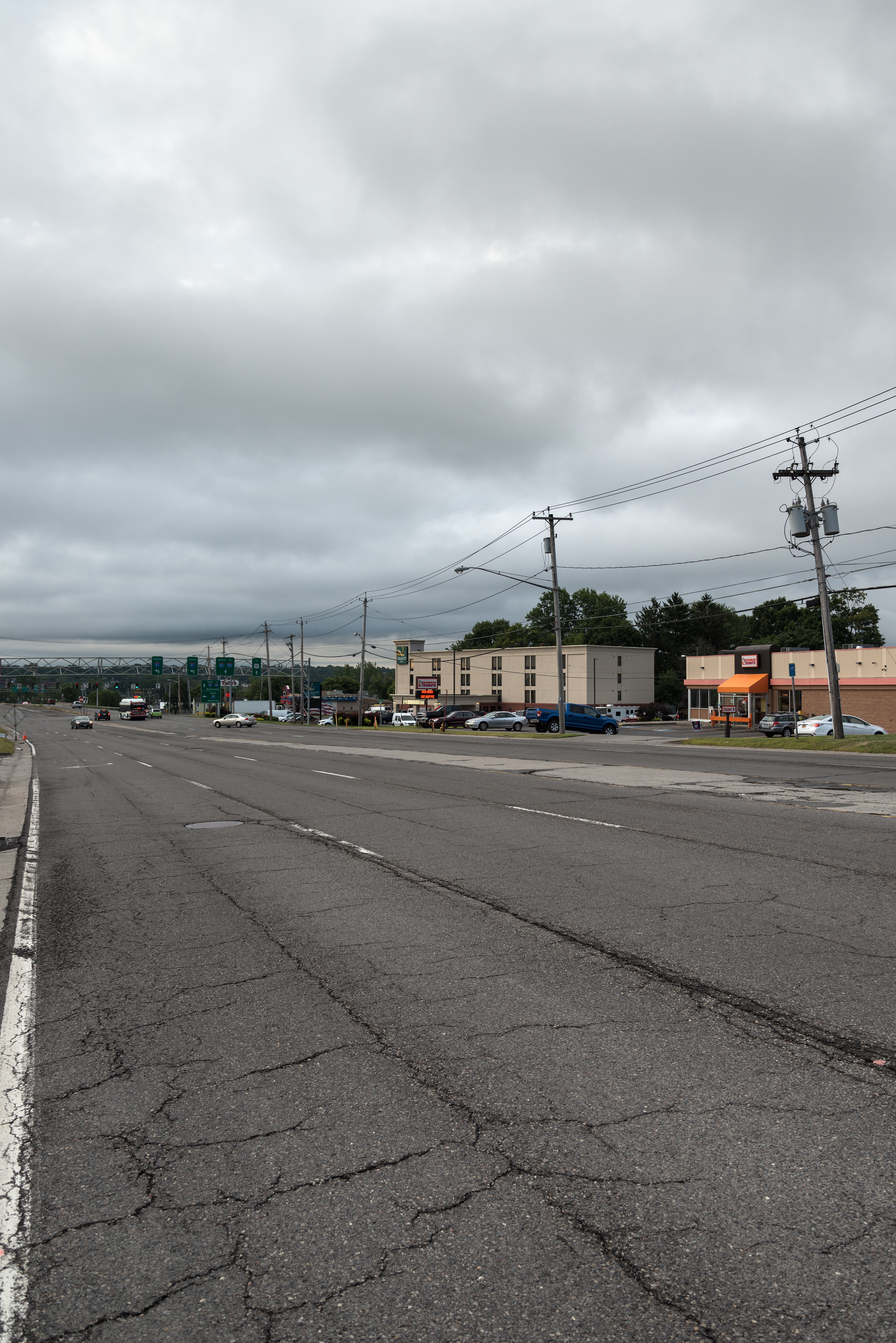 Road - Liverpool, New York, USA - August 12, 2015